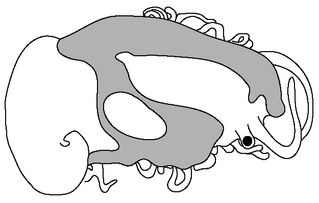 A drawing of anatomy of juvenile 5 mm long Haliotis asinina with the shell removed. The mantle tissue is in gray.